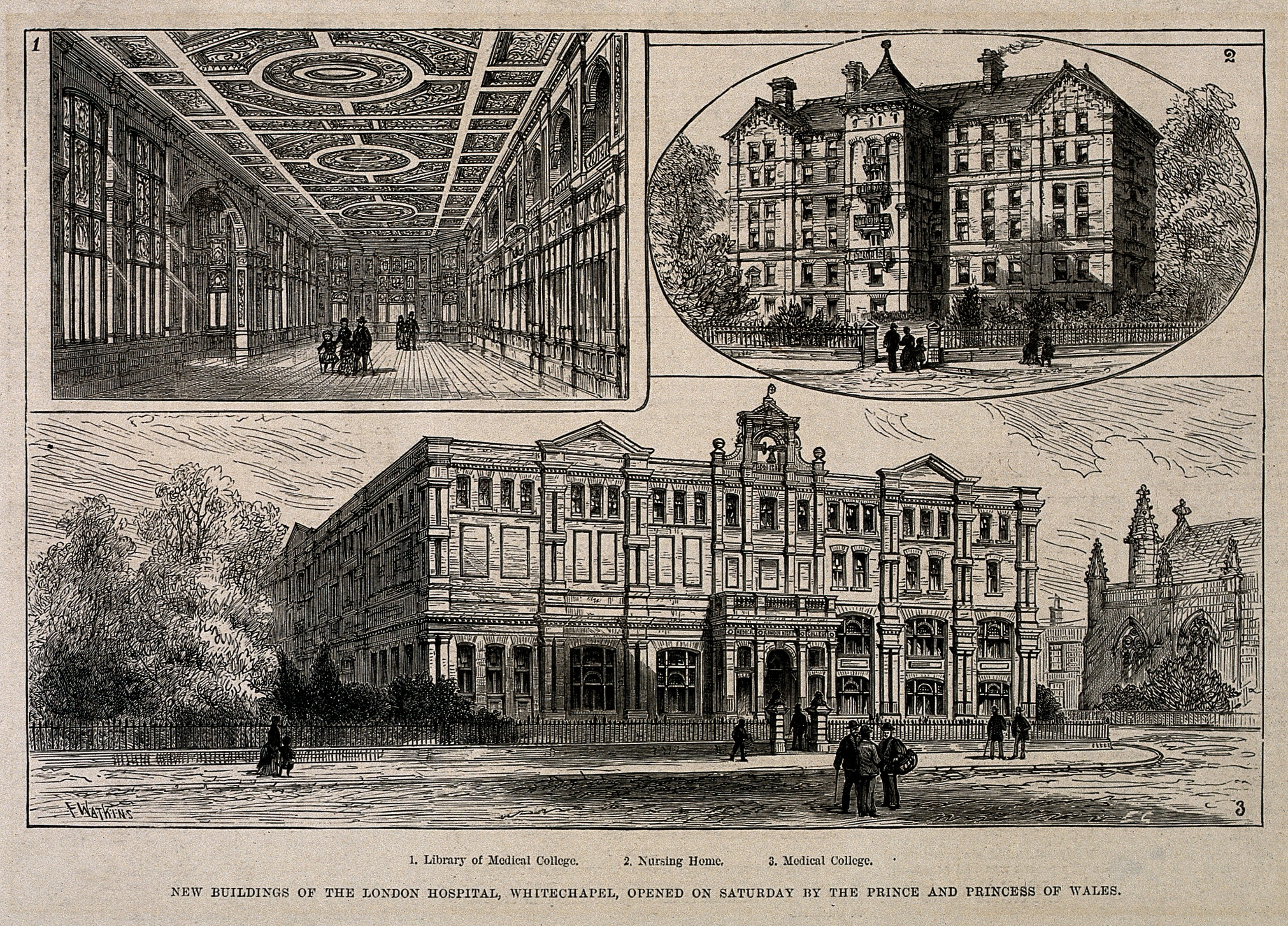 The London Hospital, Whitechapel: the medical college and nursing home. Wood engraving by E. G. after F. Watkins, 1877. Iconographic Collections Keywords: Frank Watkins; Charles Barry